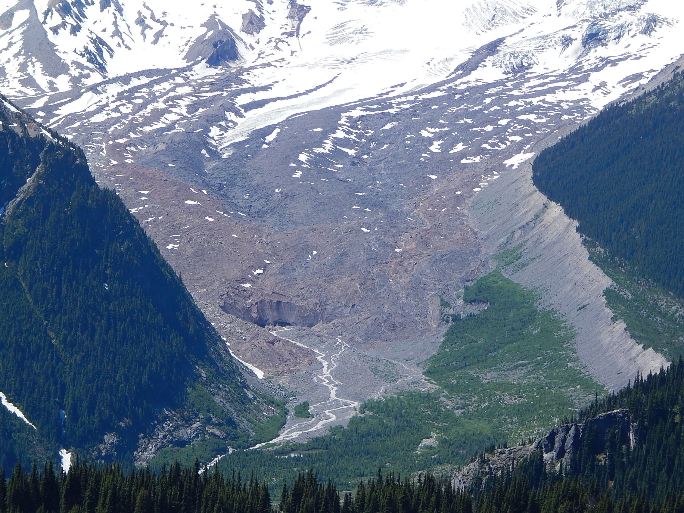 Emmons Glacier snout (terminus) seen from Sourdough Ridge in Mount Rainier National Park using a long lens